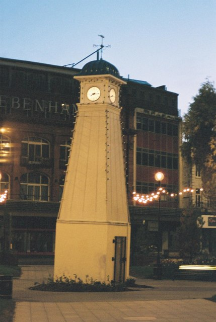 Leaning tower of Bournemouth. The Square, Bournemouth, was in fact a large roundabout until 4 October 1992 when it was closed to traffic for the last time to enable a pedestrianisation scheme. It was only when workmen started removing the shrubbery that it was realised that the tower was actually leaning - the centre of the tower at the top being fully 18 inches adrift from the centre of the foot. Once the pedestrianisation was complete, the tower remained for a short period, during which this picture was taken, before itself being removed and replaced by a camera obscura/café that now stands there (see 509151).